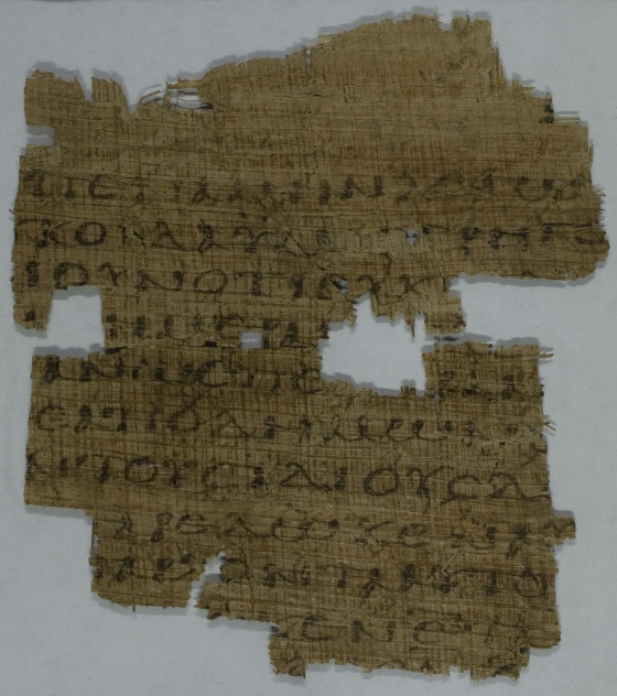 Papyrus 35 - Laurentian Library, PSI 1 - Matthew 25,12-15.20-23 - recto